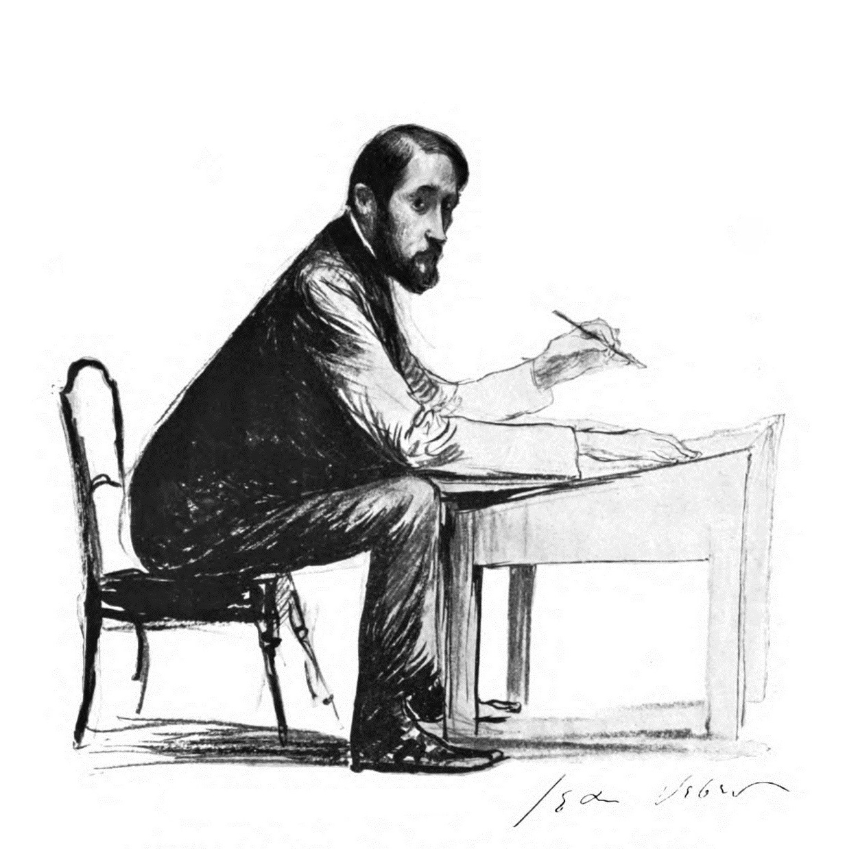 Portrait of Jean Veber by himself